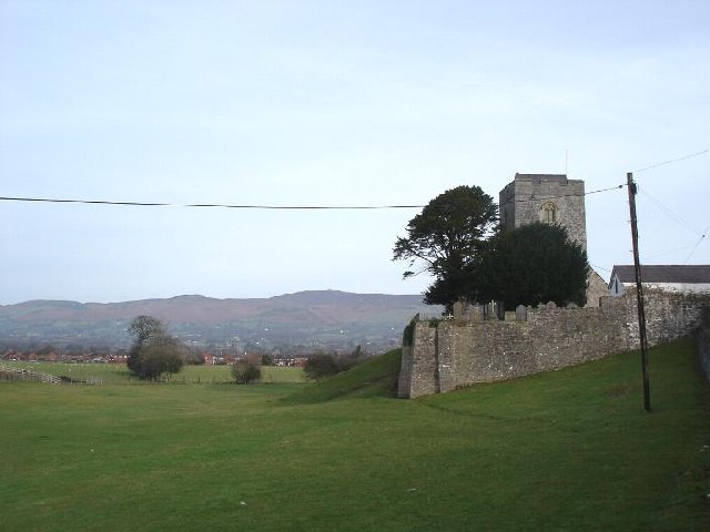 Llanfwrog parish church. Llanfwrog parish church just outside the market town of Ruthin